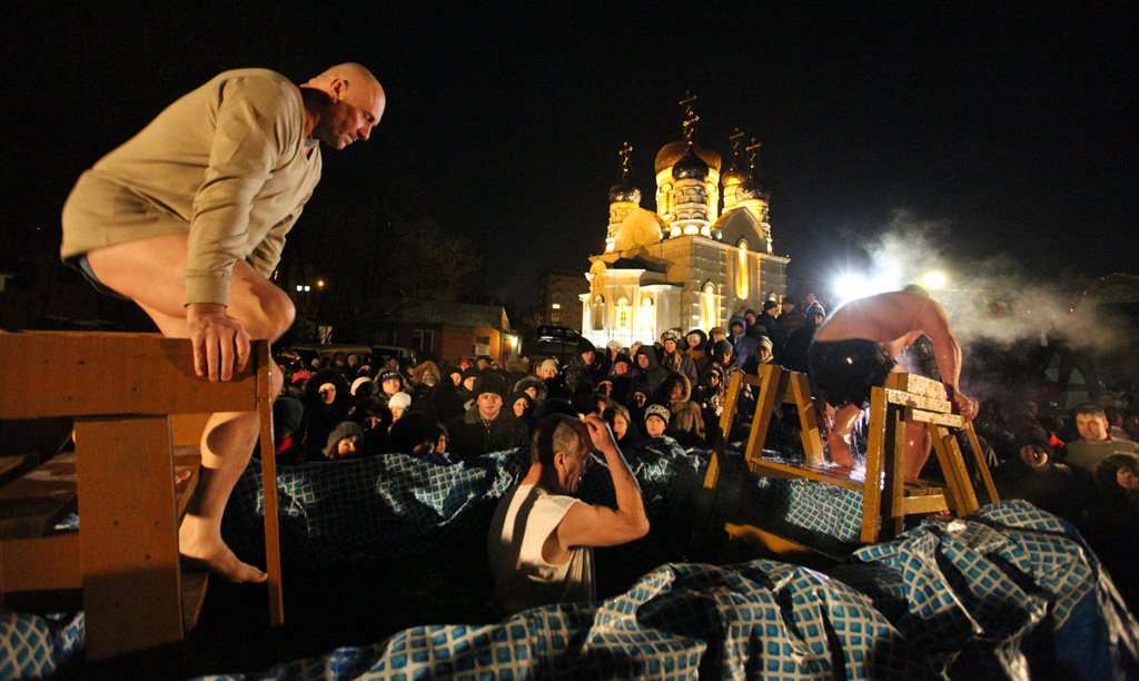 “Epiphany bathing in Vladivostok”. Vladivostok's residents taking part in traditional Epiphany bathing at the font by the Church of the Intercession.